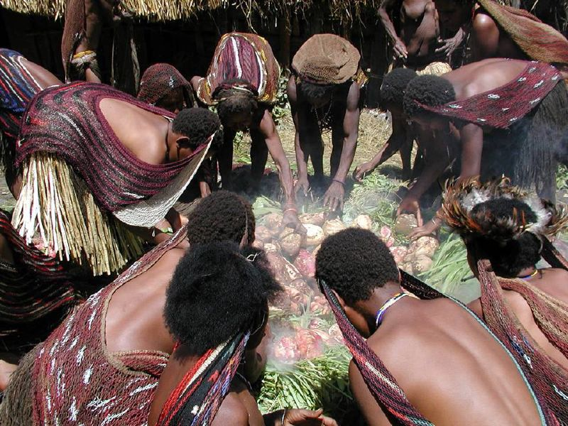 Barapen Ceremony, Baliem Valley, Papua